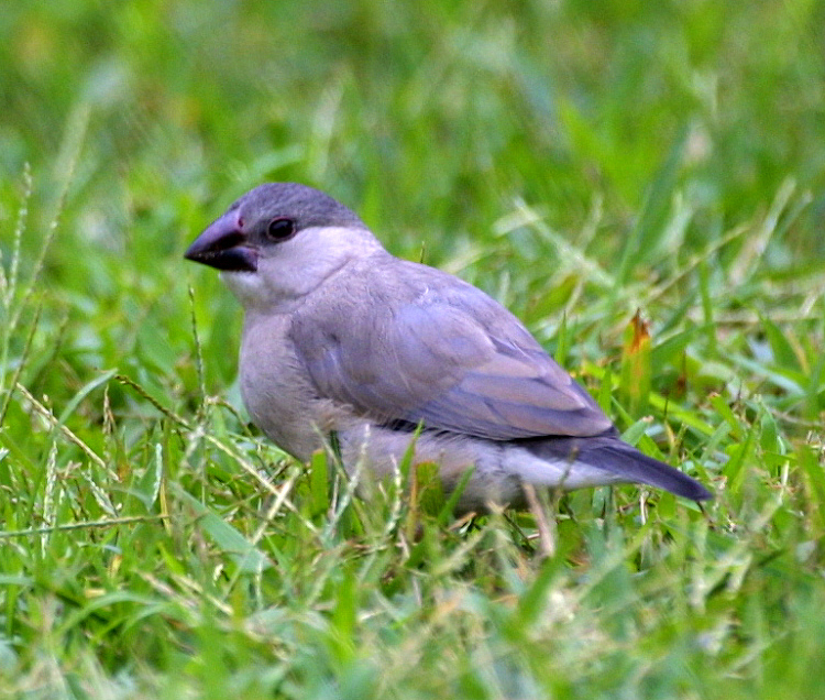 A juvenile Java Sparrow (also known as Java Finch and Java Rice Bird) at the University of Hawaii at Manoa campus, Honolulu, Hawaii, USA.